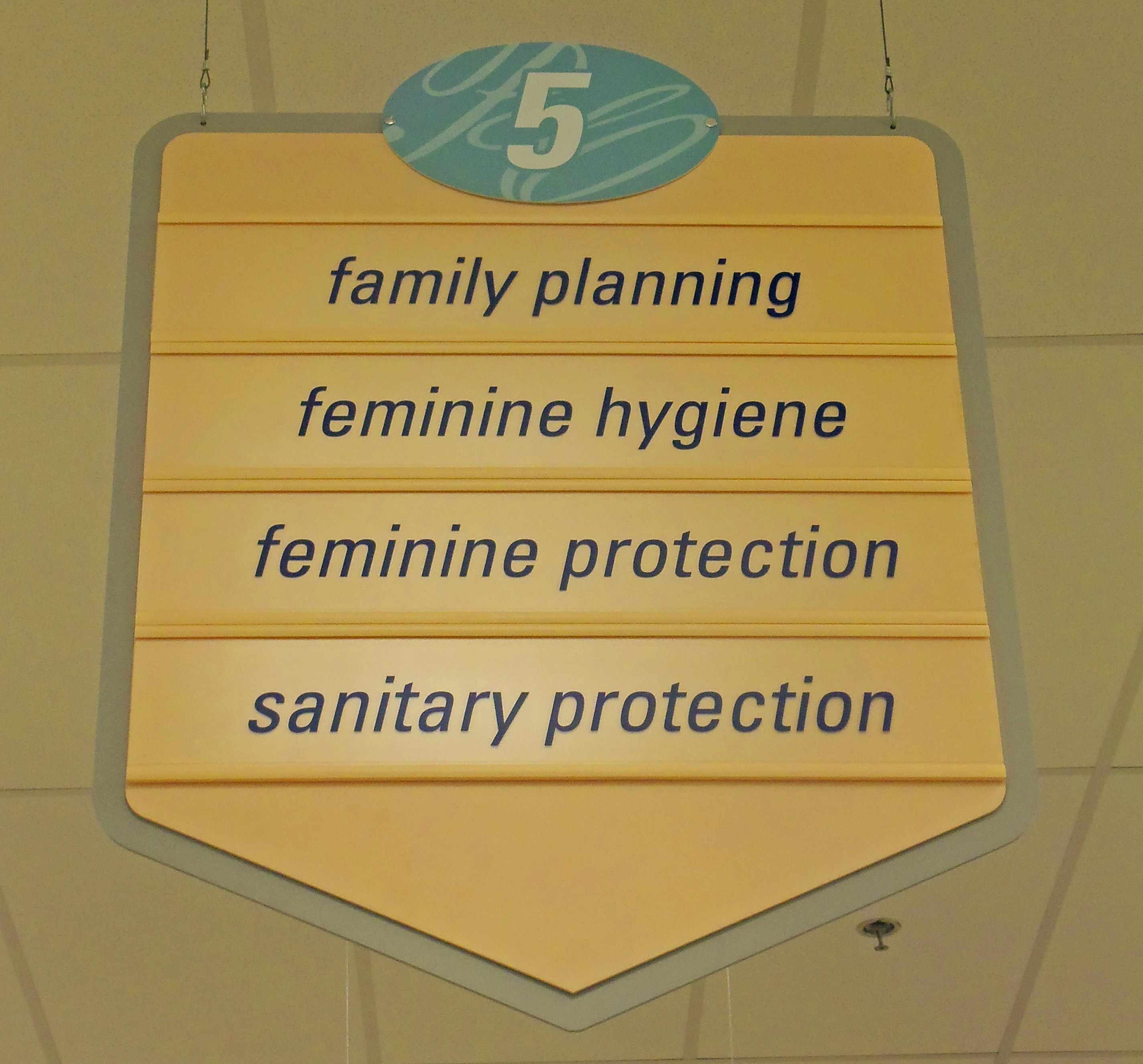 Sign at a Rite Aid in Highland, NY, USA, with common euphemisms for (from top) contraceptives, douches, tampons and maxipads.